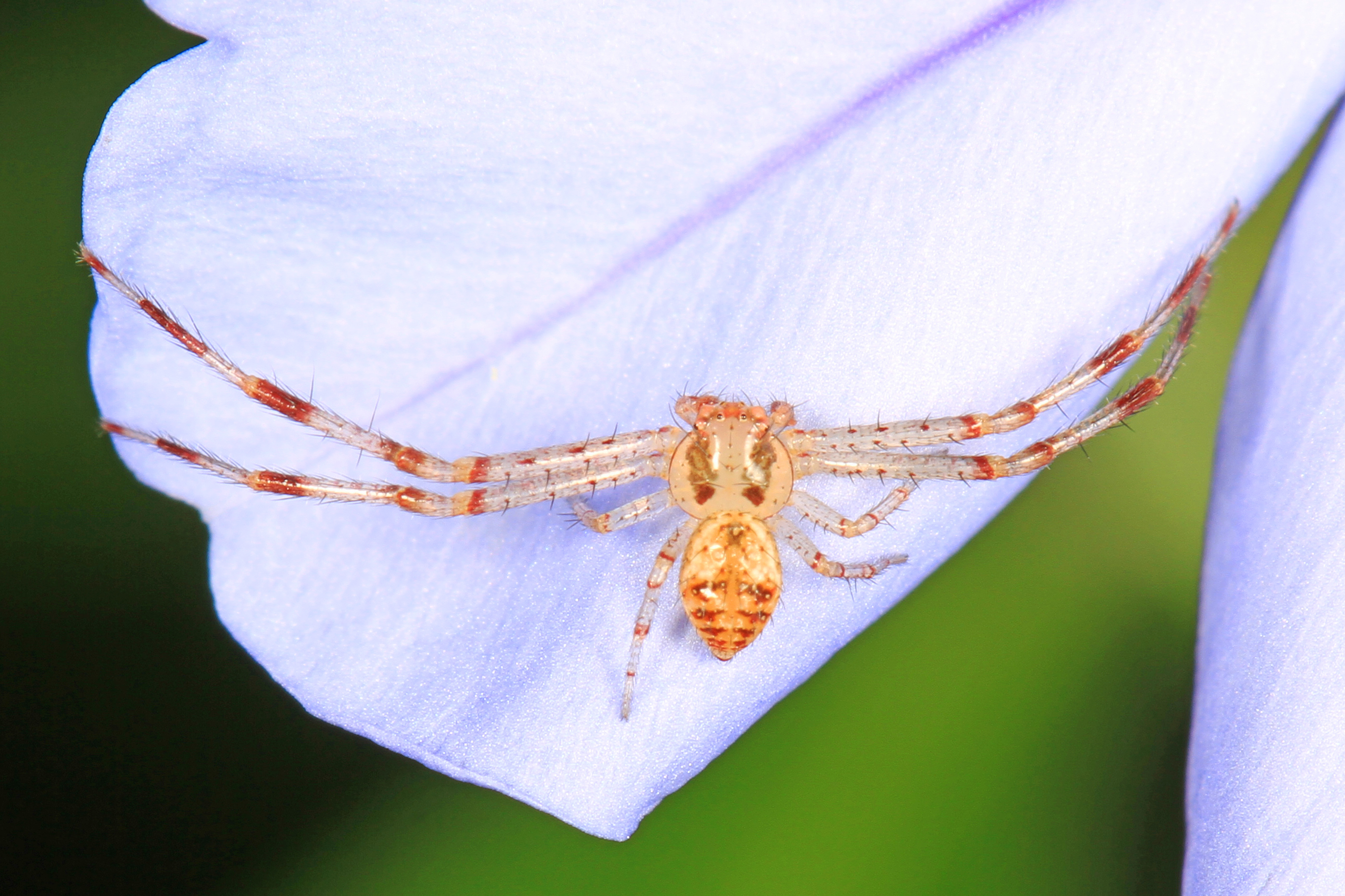 Crab Spider - Mesumenops bellulus, Crocodile Lake National Wildlife Refuge, Key Largo, Florida